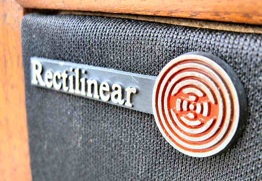 Logo from Rectilinear III loudspeaker.